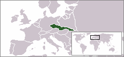 Location of Czechoslovakia in 1918